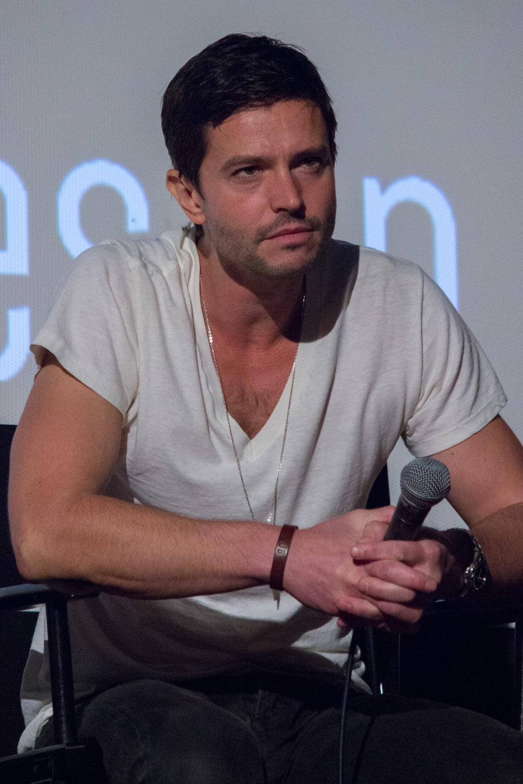 Actor Jason Behr at the ATX TV Festival 2014 for the TV show Roswell